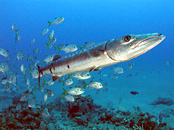 Great Barracuda (Sphyraena barracuda) and Jacks, Diamond Rock, Saba, Netherlands Antilles. Image taken by Clark Anderson/Aquaimages.